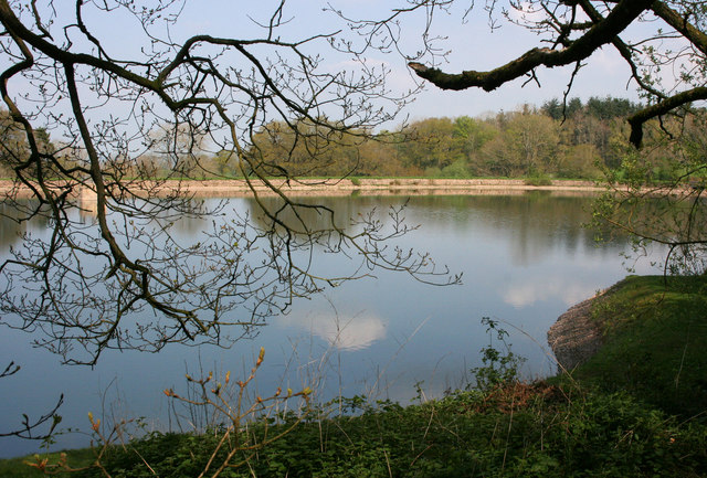 Leigh Hill Reservoir Constructed in the 1890's.